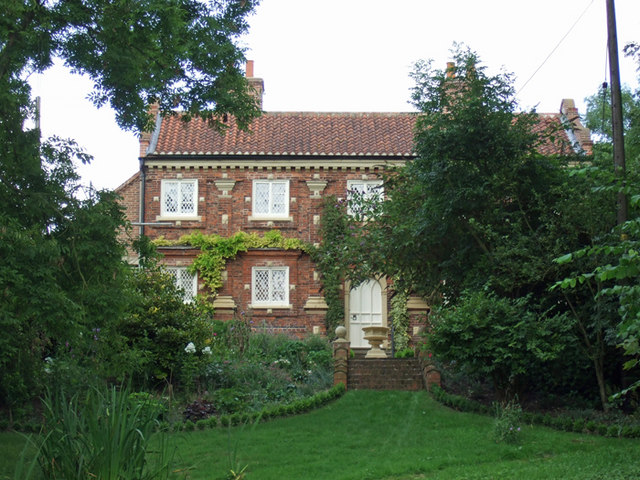 Worlaby Hospital: This Almshouse was built in 1663 by Lord Belasyse as, it is thought, a thanks offering for his life being spared during the Civil war when as a Royalist he was imprisoned in the Tower. The front is of five bays and two storeys divided by giant Doric pilasters. Now a private residence this picture was taken from the public footpath.